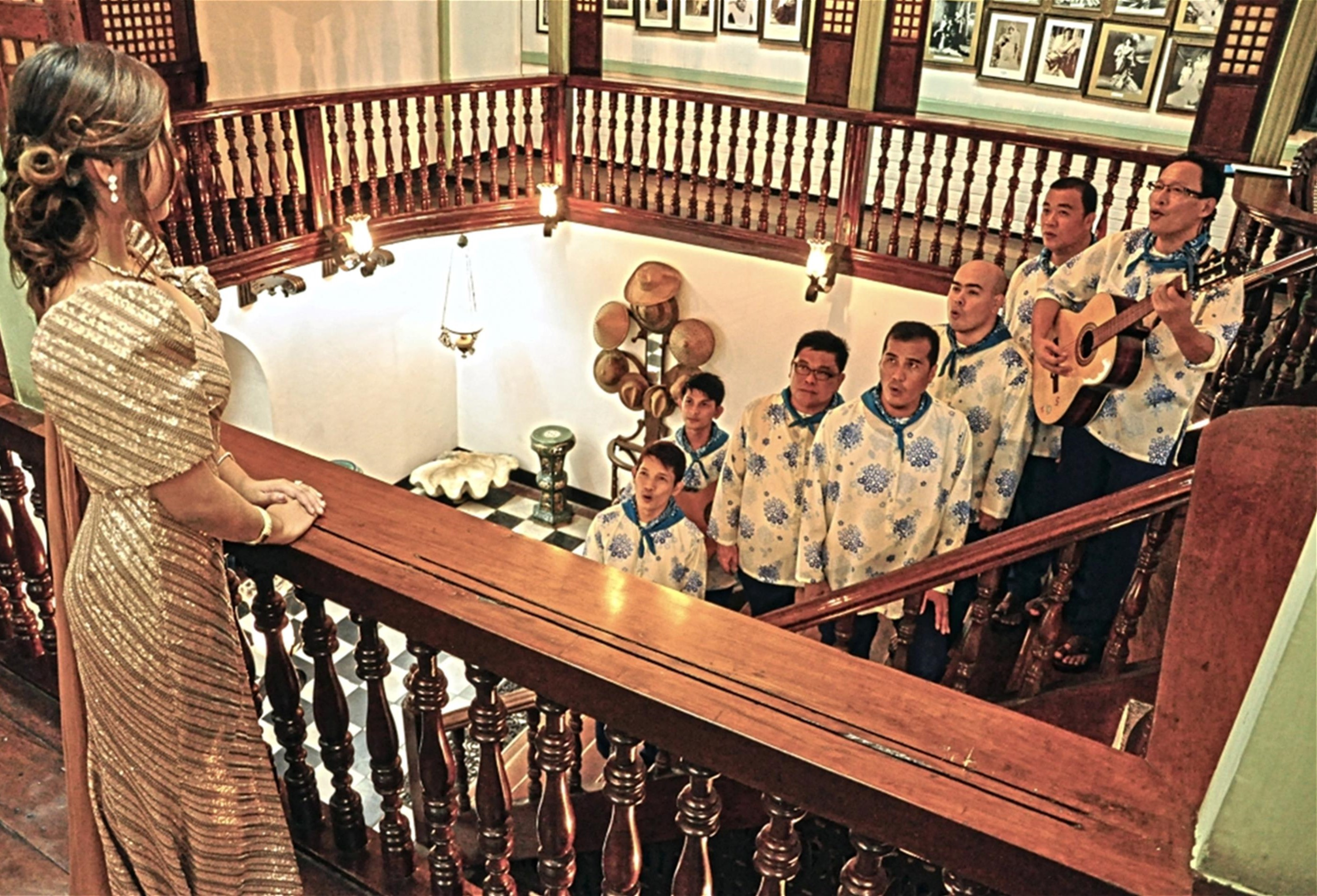 Harana traditon of the Philippines